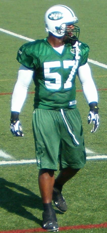 Bart Scott during practice